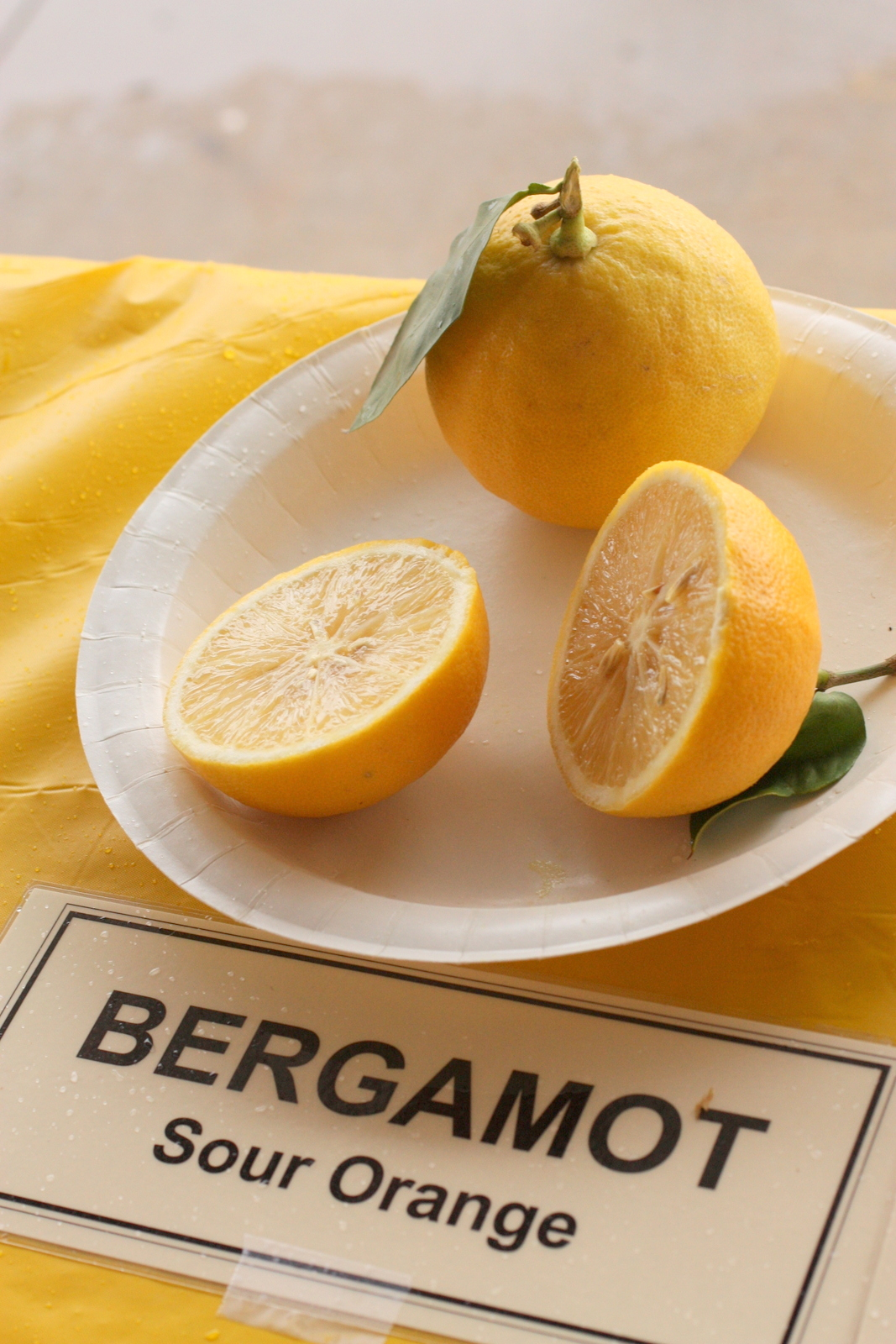 Undeterred by failure (or restraint/common sense), I continued with my marmalading. Next was the bergamot marmalade. Bergamot, as noted in the citrus clinic slideshow, is the source of the floral, citrus notes in Earl Grey tea. It is not, however, a fruit used fresh very often due to its strong flavor. Honestly, to me, the fresh smelled like delicious citrus mixed with gasoline. So to make a successful marmalade, you have to consider some different strategies.